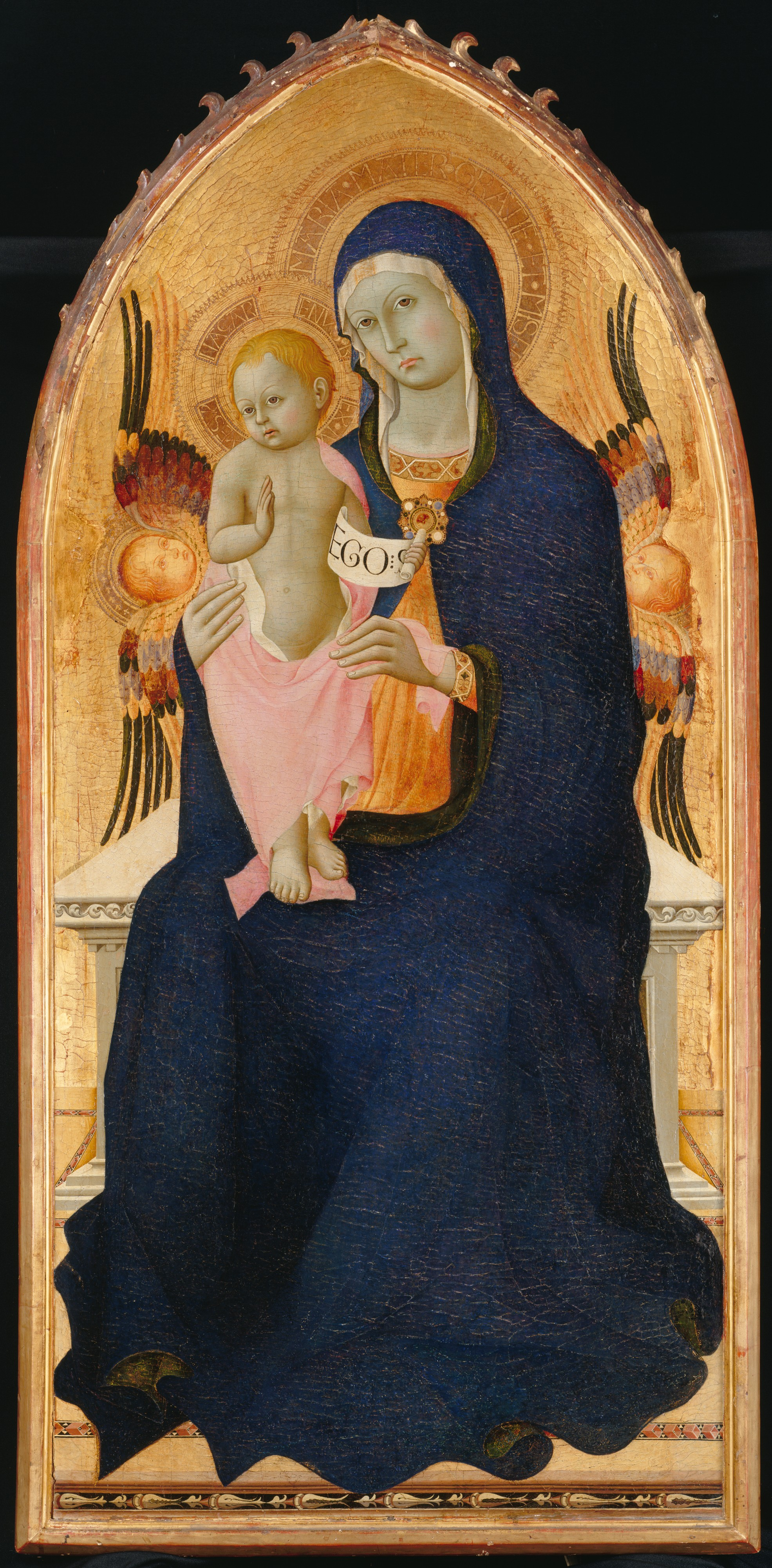 Madonna and Child Enthroned with Two Cherubim Master of Osservanza Tempera and gold on panel, 143.5 x 69.5 cm New York, Metropolitan Museum of Art